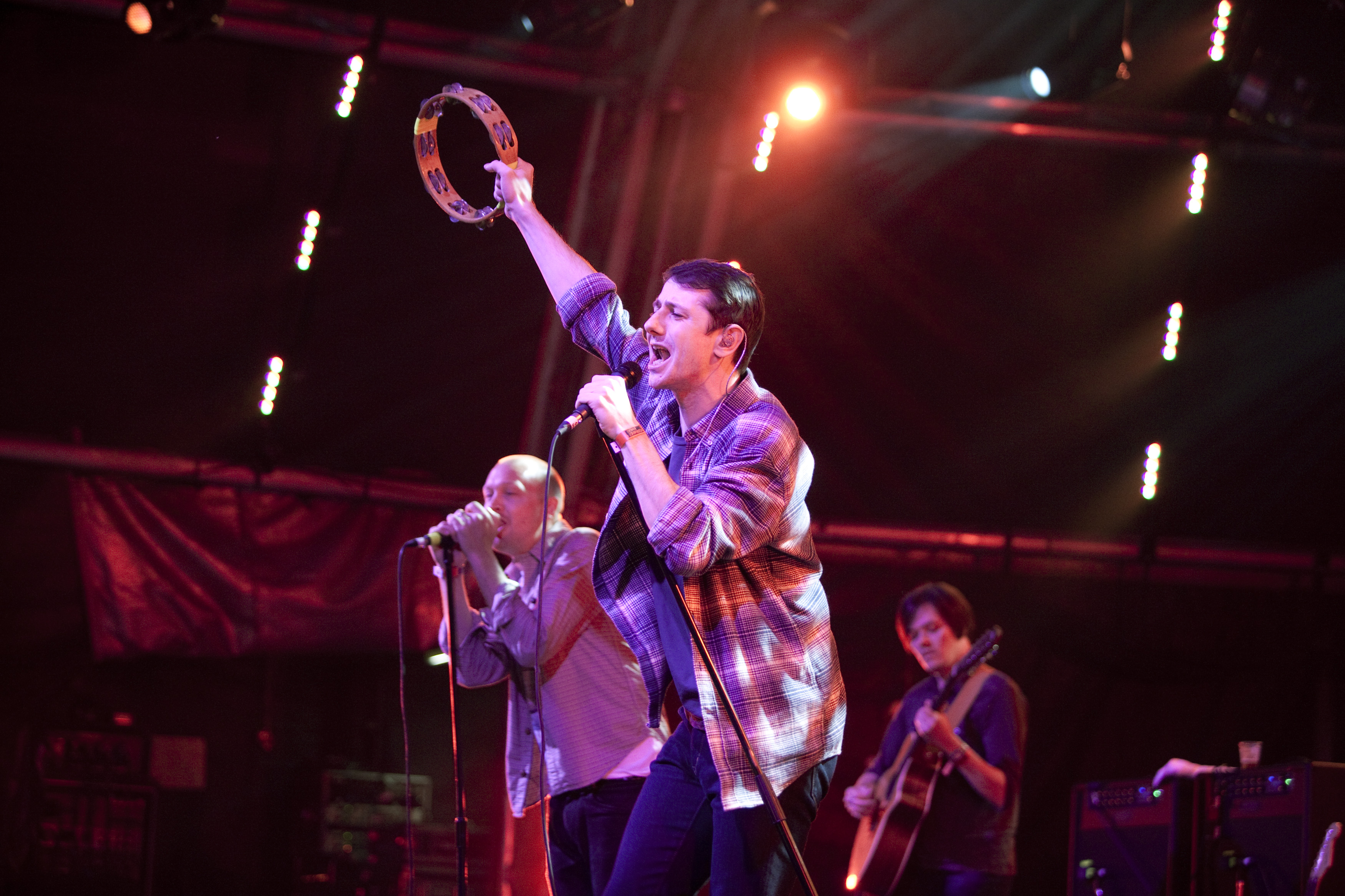 The Twang perform at ArtsFest in Birmingham, the country's largest free arts festival with 600 artists taking part over the weekend.